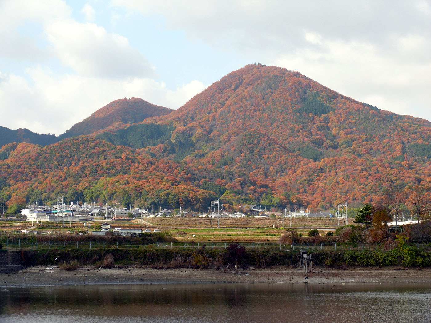 Mount Nijo as seen from the east.